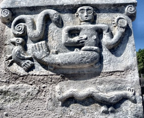 Church of Segus